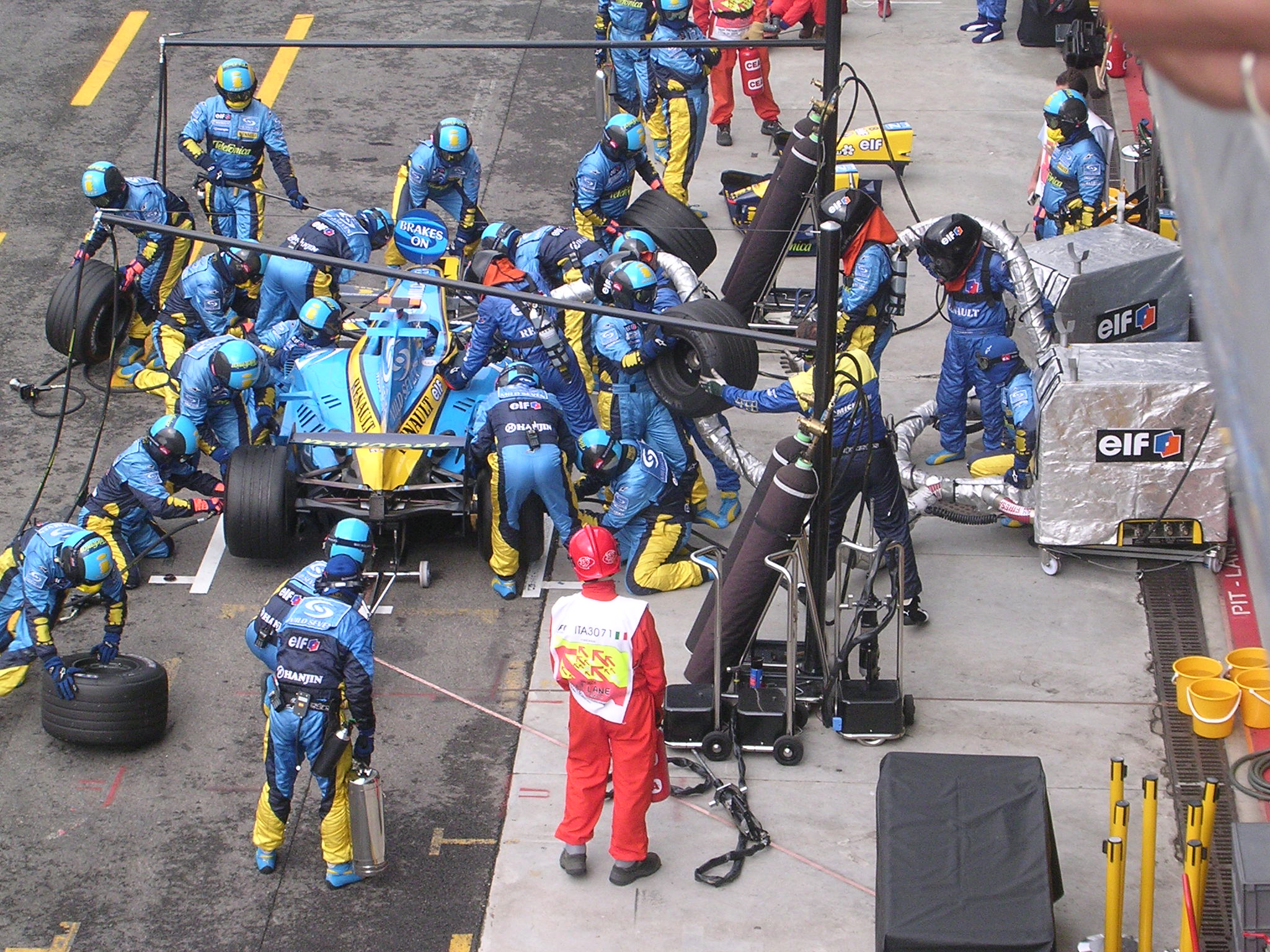 The Autrodomo Nazionale of Monza (italy) during a race in september 2004